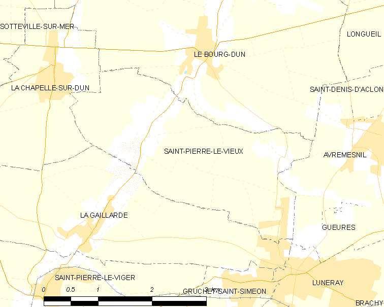 Map of French municipality Saint-Pierre-le-Vieux